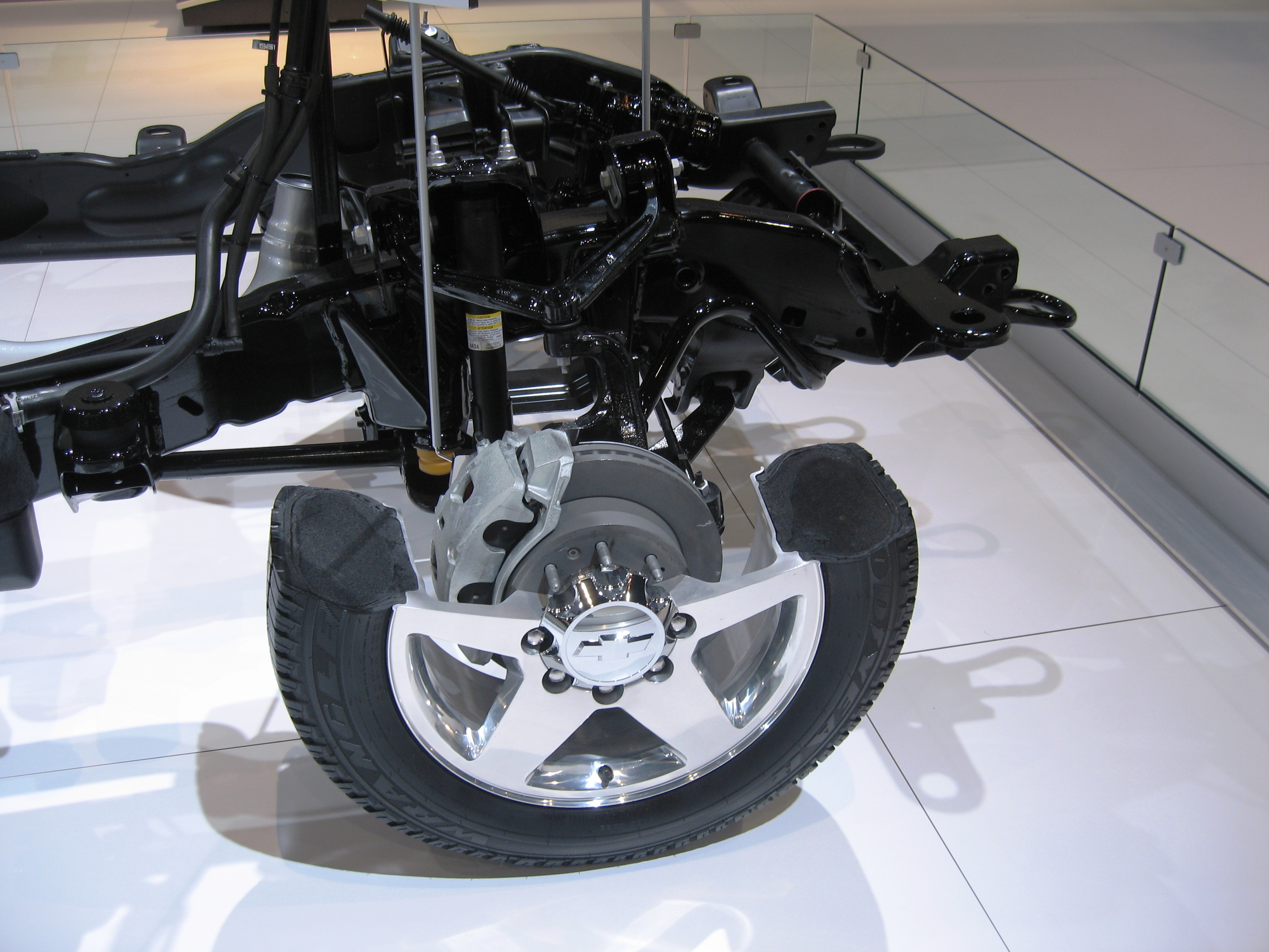 2011 Chevy Silverado HD cutaway frame